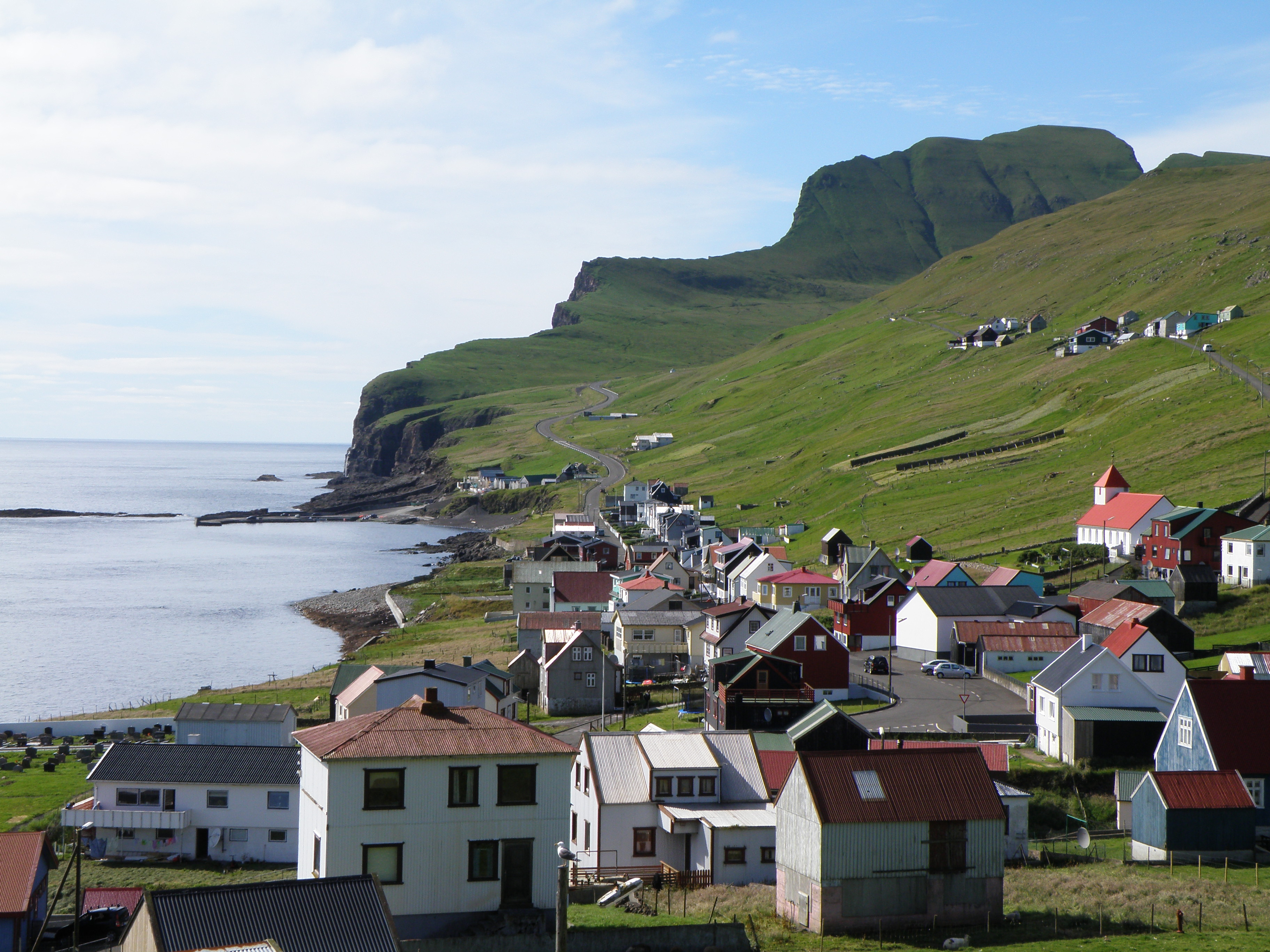 Sumba is the southernmost village in the Faroe Islands, located on the south-western coast of the island Suðuroy. Beinisvørð is a 470 meter high sea cliff. It goes vertically down to the North Atlantic Ocean on the western side and on its eastern side it has a green slope, as one can see on this photo. The population of Sumba is around 250. The population of the island Suðuroy is ca. 4900.